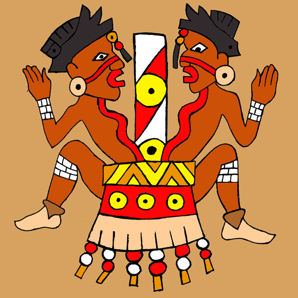 S.E.C.C. Hero Twins Janus head figure with a striped pole motif